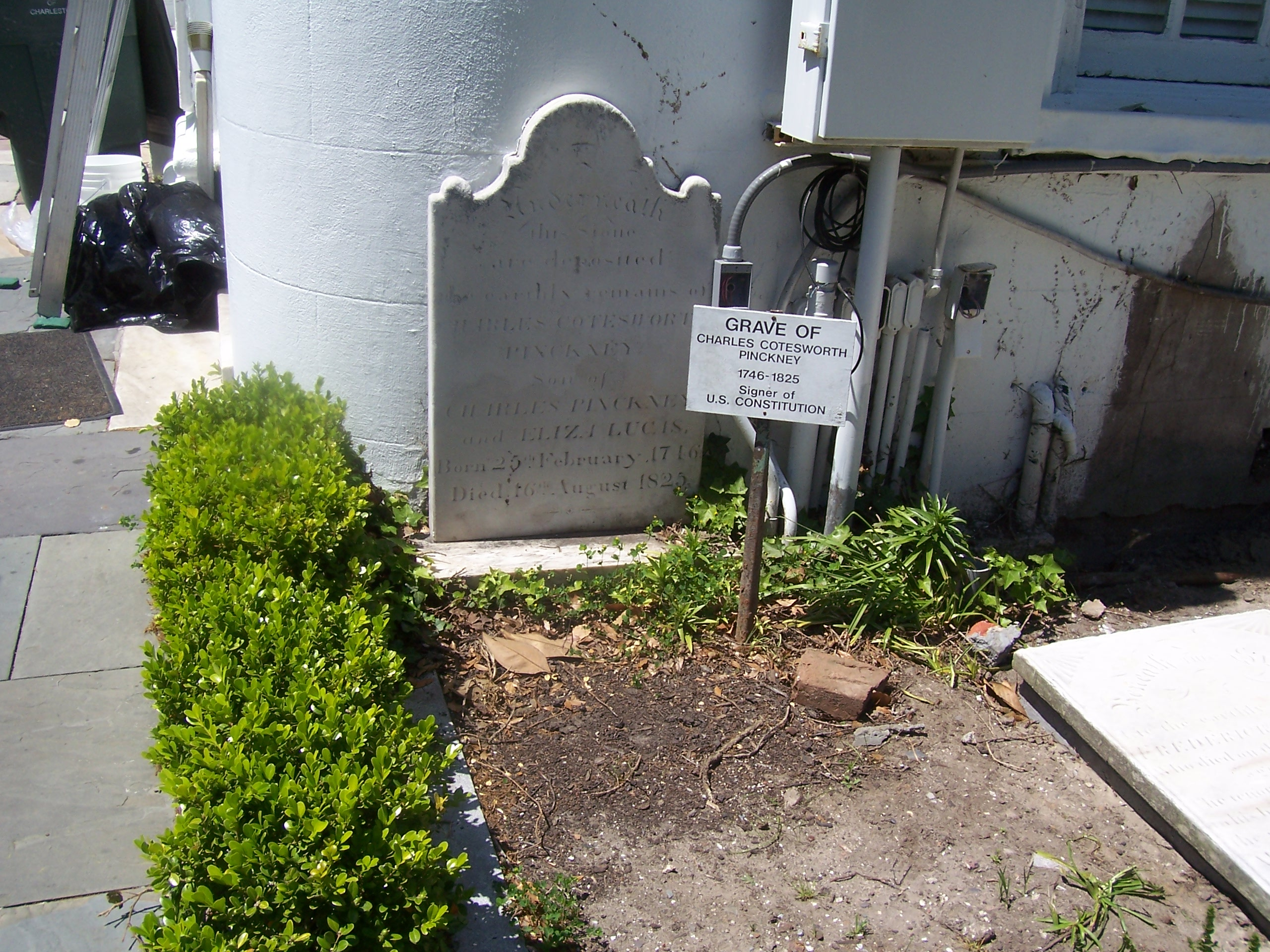 Grave of Charles Cotesworth Pinckney in Saint Michael's Church Graveyard in Charleston, SC.